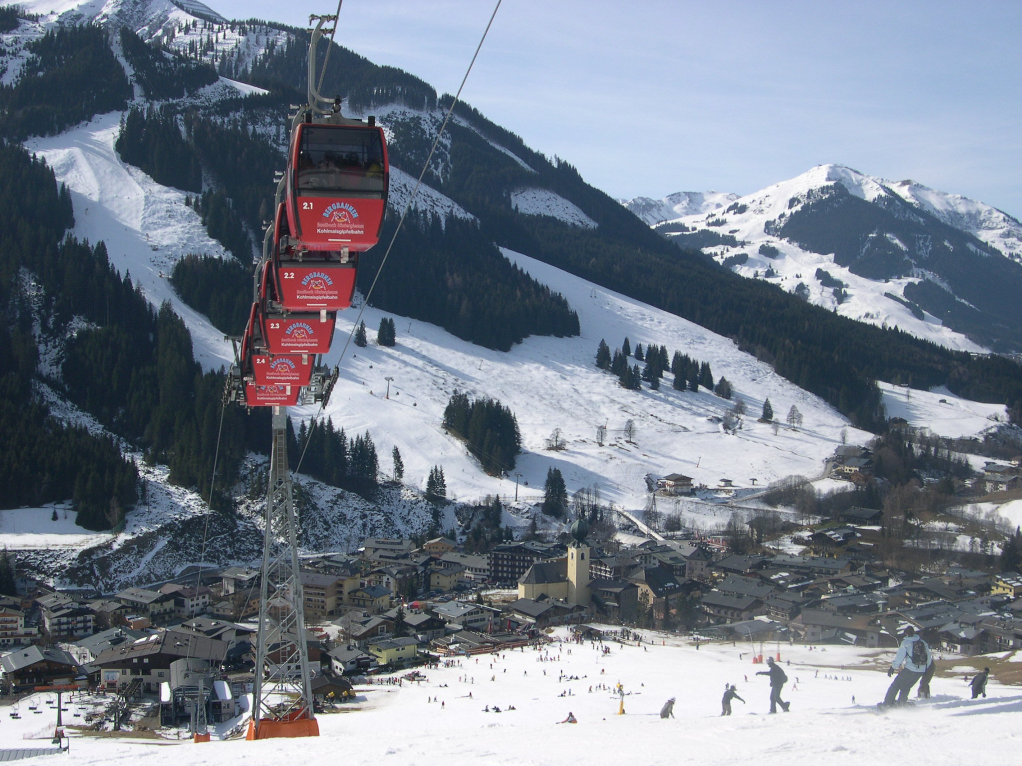 "Kohlmaisbahn" in Saalbach-Hinterglemm (Austria), background: village itself, Schattberg and Zwoelferkogel